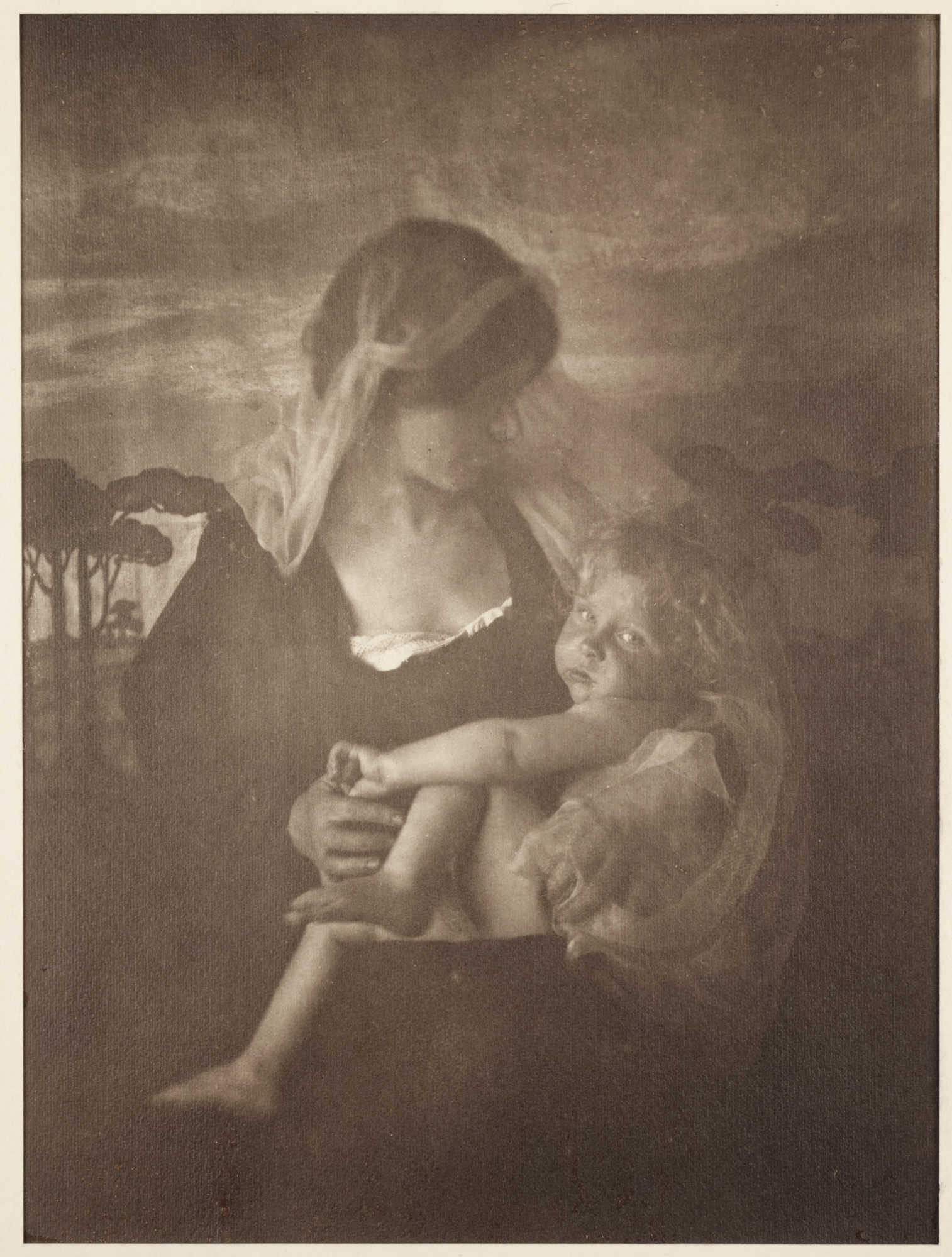 The Awakening, a 1903 carbon print by Emma Barton (*1872, †1938) (according to the Science & Society Picture Library of London)